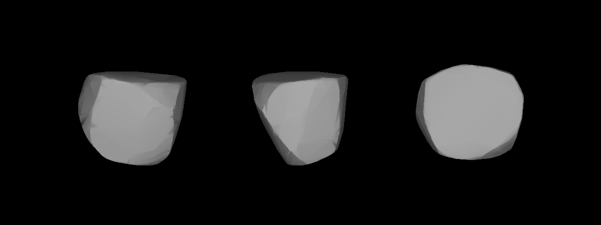 A three-dimensional model of 68 Leto that was computed using light curve inversion techniques.